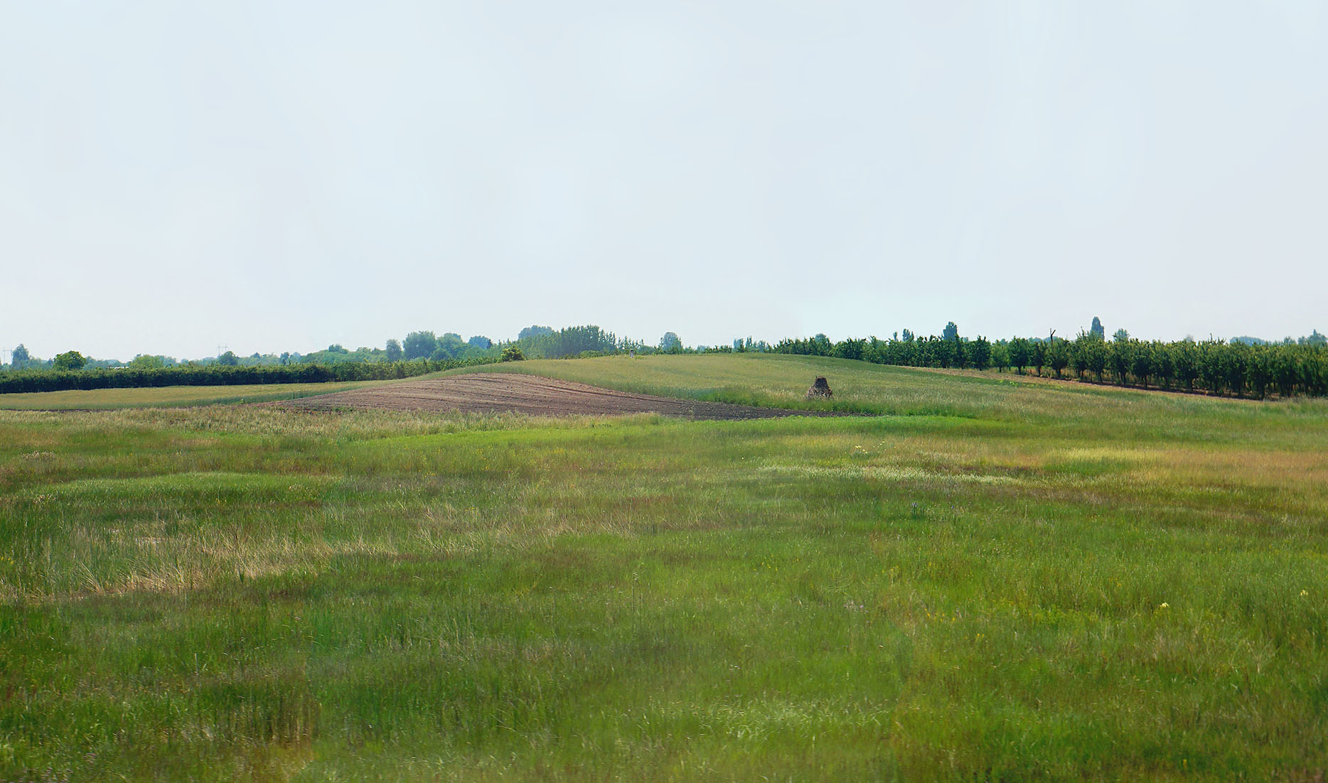 An old kurgan mound named "Béka halom" (hungarian for "frog's mound") on Selevény near Bački Vinogradi in Vojvodina, Serbia. Code: BAC471. It is on a govermentally unprotected land, but partially guarded with the trigonometric pole set as a map pointer by the military (marking 96 m above sea level)